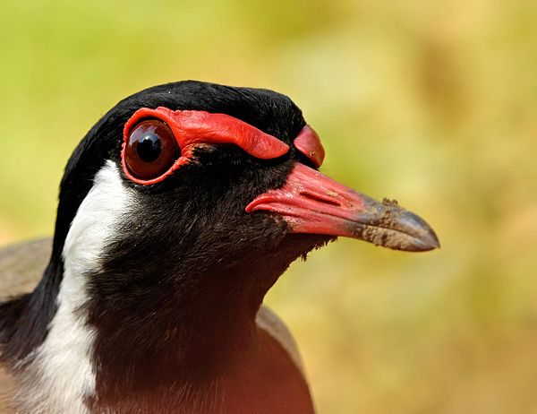 Red-wattled Lapwing Vanellus indicus portrait. Oklha Bird Park, Delhi.